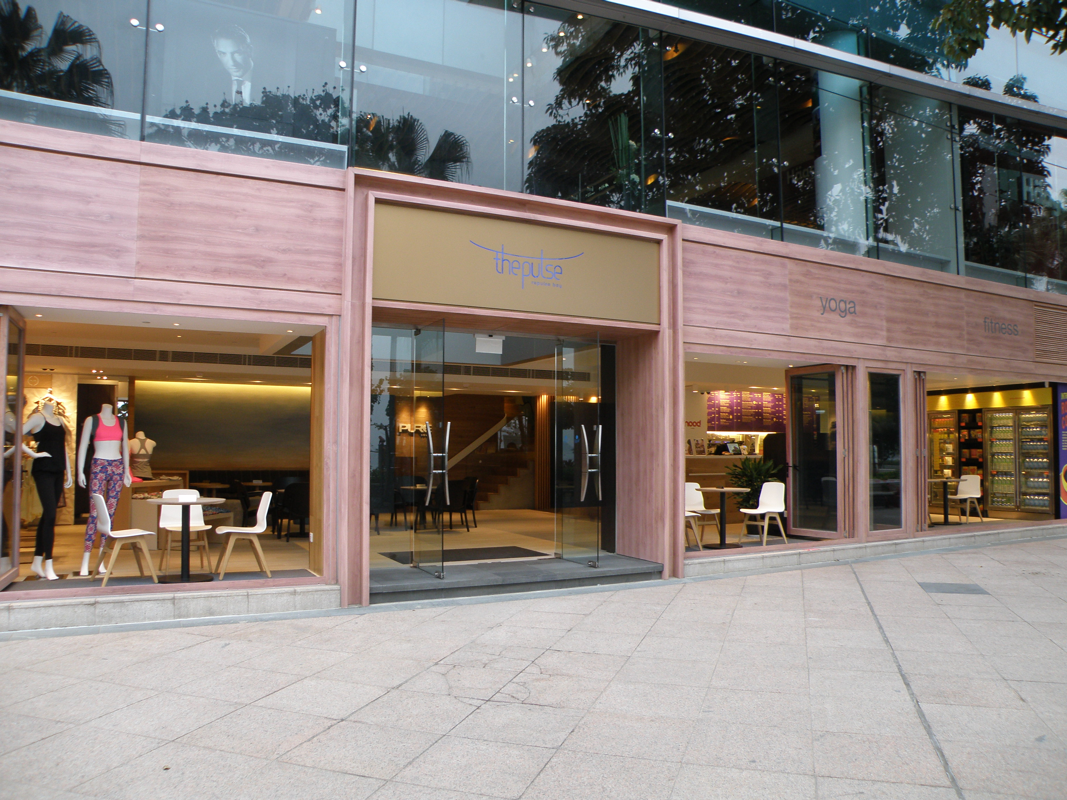 Pure Fitness in Repulse Bay, Hong Kong.